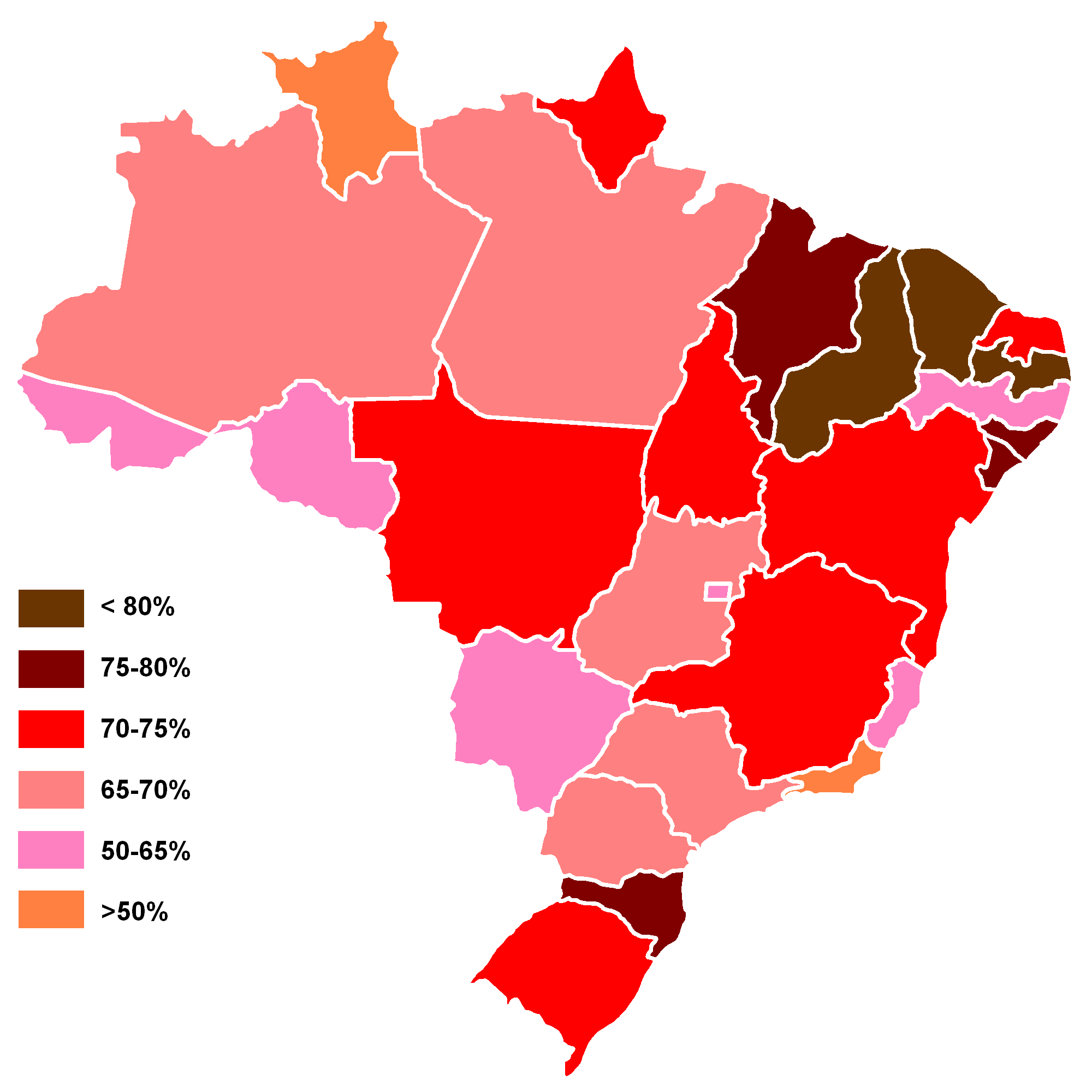 Map of proportion of Catholics by Brazilian states.